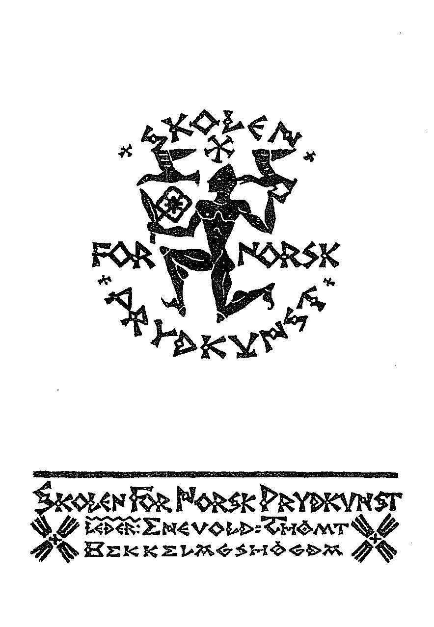 Front cover of the information brochure for "Skolen for norsk Prydkunst" (The School of Norwegian decorative art/applied art) from 1926